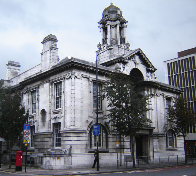 Old Bethnal Green Town Hall, Cambridge Heath Road, Tower Hamlets. 8 October 2005. Photographer: Fin Fahey